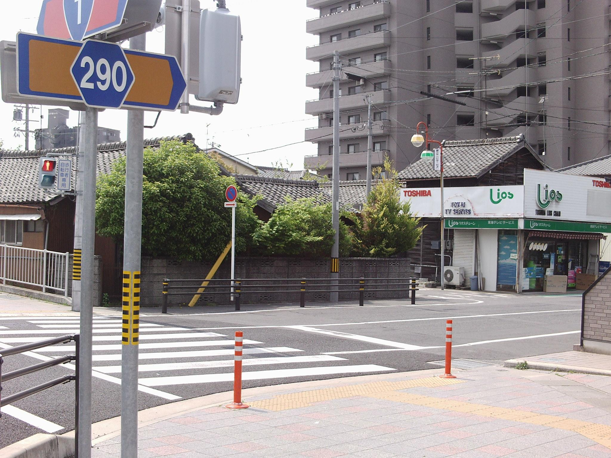 Aichi prefectural road No.290 in Yahagicho, Okazaki, Aichi.